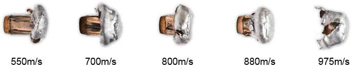 Typical expansion of bullets at different impact velocities